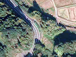 The Geospatial Information Authority took the aerial photograph in Kakegawa City, Shizuoka Prefecture on November 20, 2012.